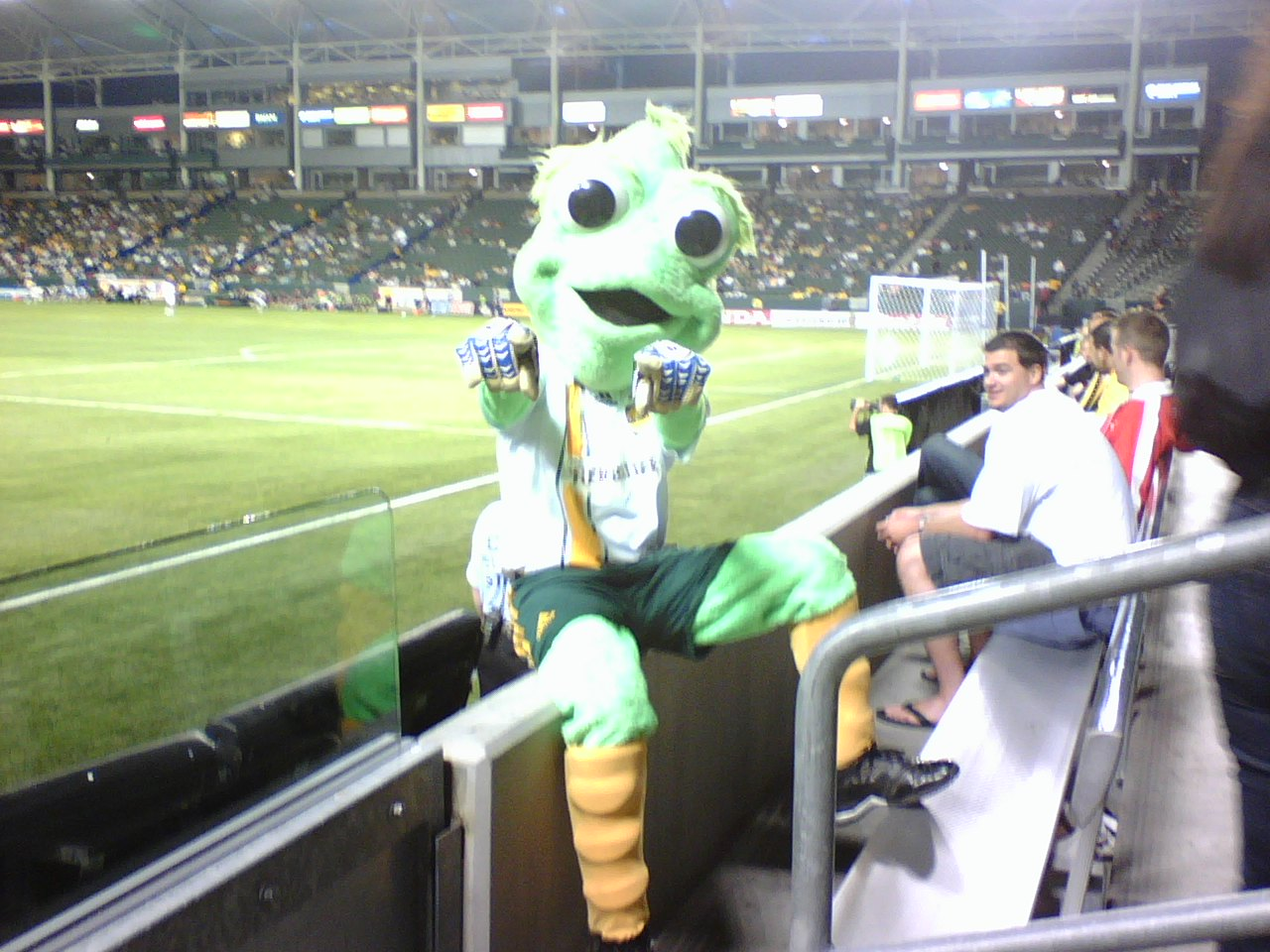 Galaxy mascot "Cozmo"